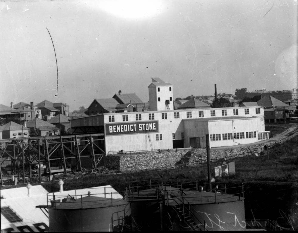 Benedict Stone Factory at Bowen Hills, Brisbane, ca. 1934 Benedict Stone was not a natural stone. It was invented by an American, Mr Benedict, by mixing cement with crushed natural stone and could be moulded into any shape. It was difficult to detect the difference with natural stone and eliminated the minerals which caused natural stone to disintegrate. It was planned to use it in the construction of the Cathedral of the Holy Name in Fortitude Valley. (Description supplied with photograph).